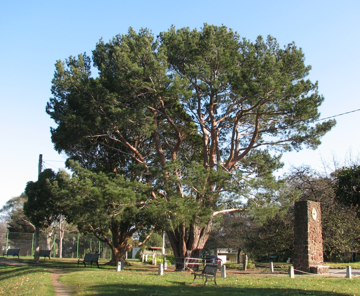 Lone Pine (Pinus brutia), Wattle Park, Melbourne, Australia. Nearby plaque reads: LONE PINE GROWN FROM GALLIPOLI LONE PINE SEED IN REMEMBRANCE OF FALLEN COMRADES 24th BATTALION 8-5-33